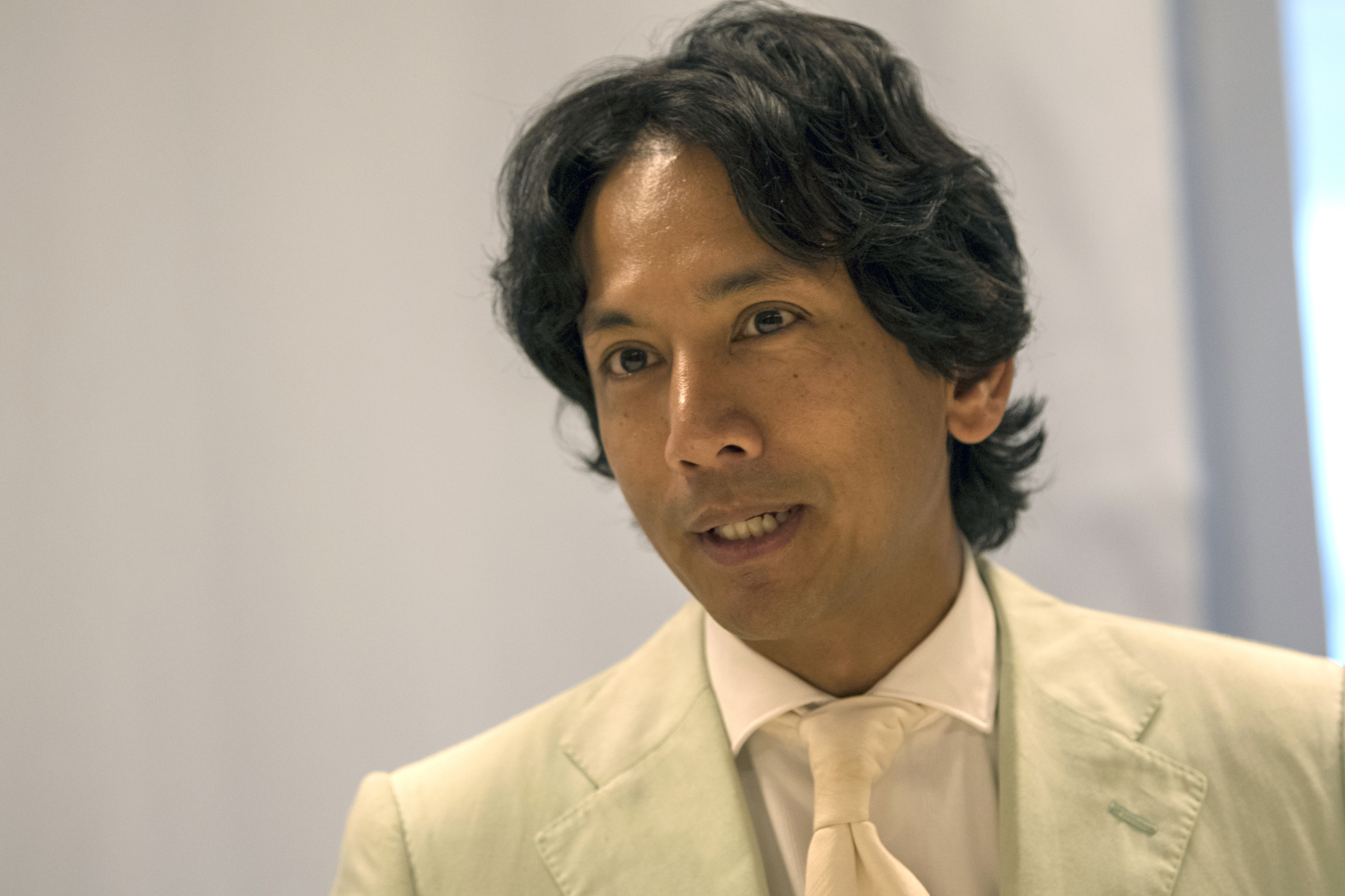 Dutch pianist Wibi Soerjadi during a visit to the Ministry of Foreign Affairs